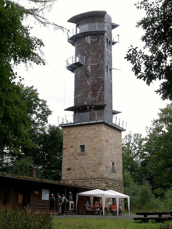 Lookout tower on Schwedenschanze (Hassberge), Germany